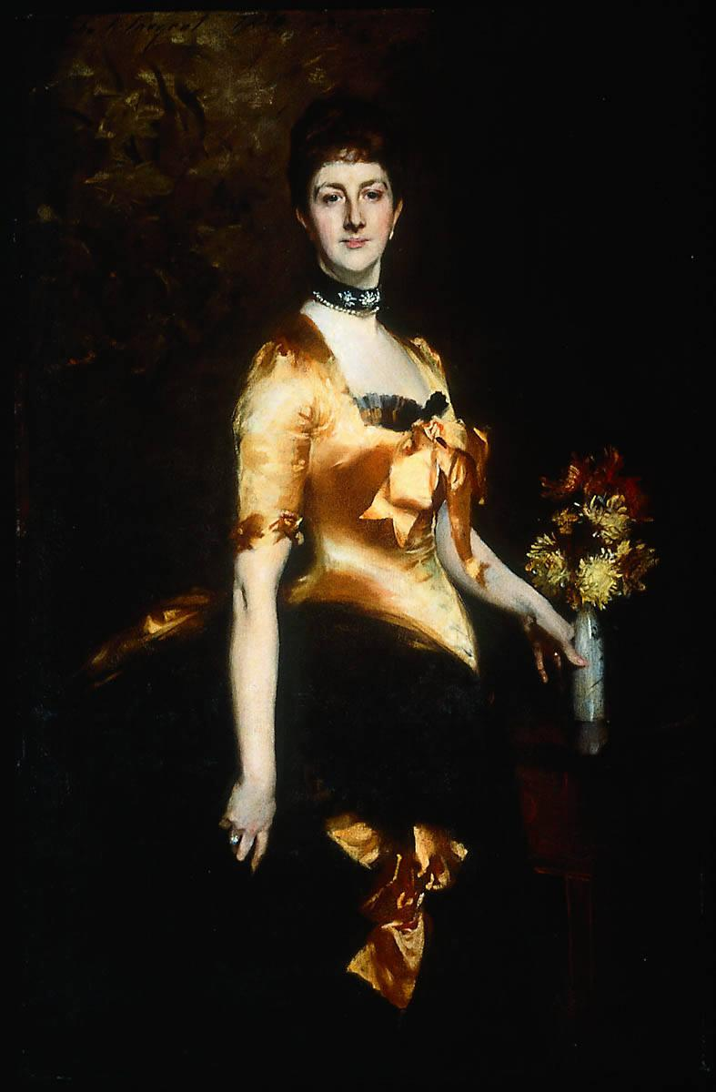 Edith, Lady Playfair (nee Russell) 1884 Museum of Fine Arts, Boston Oil on canvas 152.08 x 98.42 cm (59 7/8 x 38 3/4 in.) Bequest of Edith, Lady Playfair 33.530 Jpg: MFA